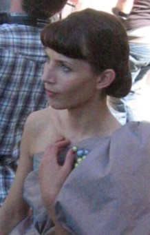 Swedish actress Tuva Novotny